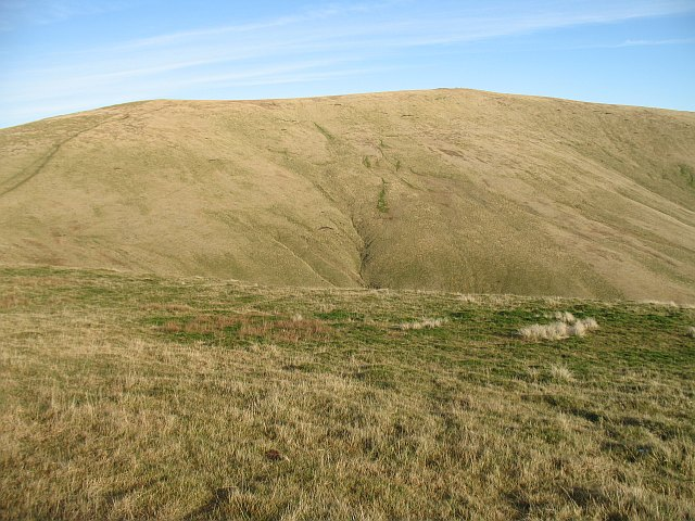 Ben Cleuch Looking across the head of the Millglen Burn from Ben Ever towards Ben Cleuch.